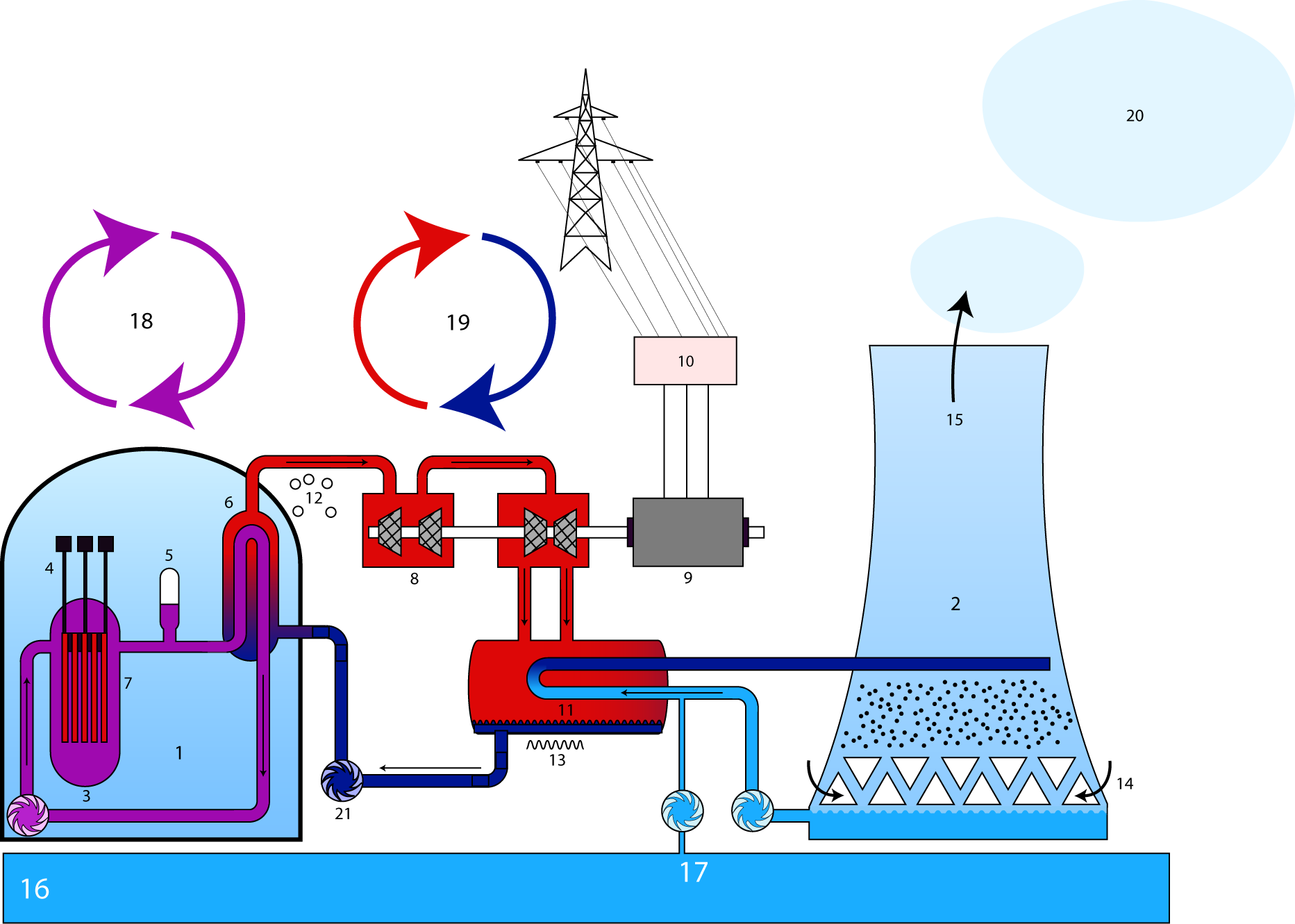 Design of a nuclear power plant with pressurized water reactor (PWR) reactor block cooling tower reactor control rod support for pressure steam generator fuel element turbine generator transformer condenser gaseous liquid air air (humid) river cooling-water circulation primary circuit secondary circuit water vapor pump